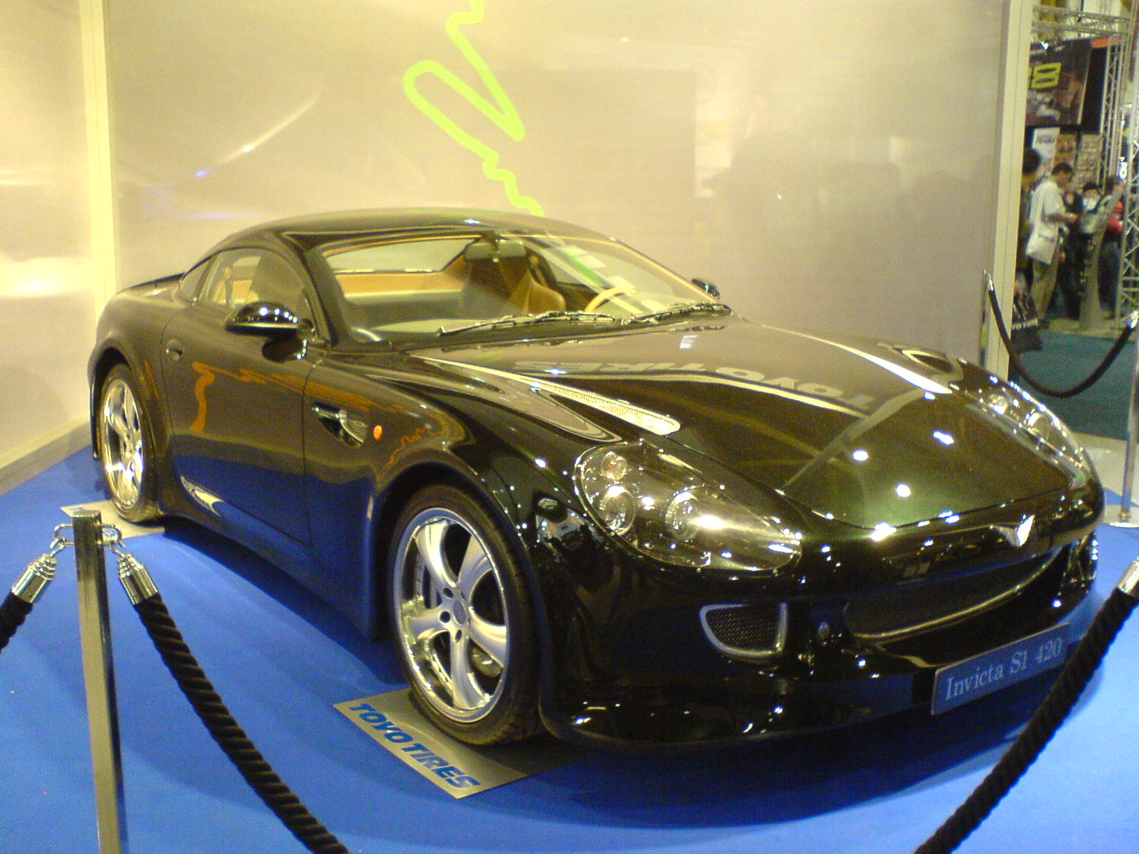 Picture taken at European Motor Show Brussels